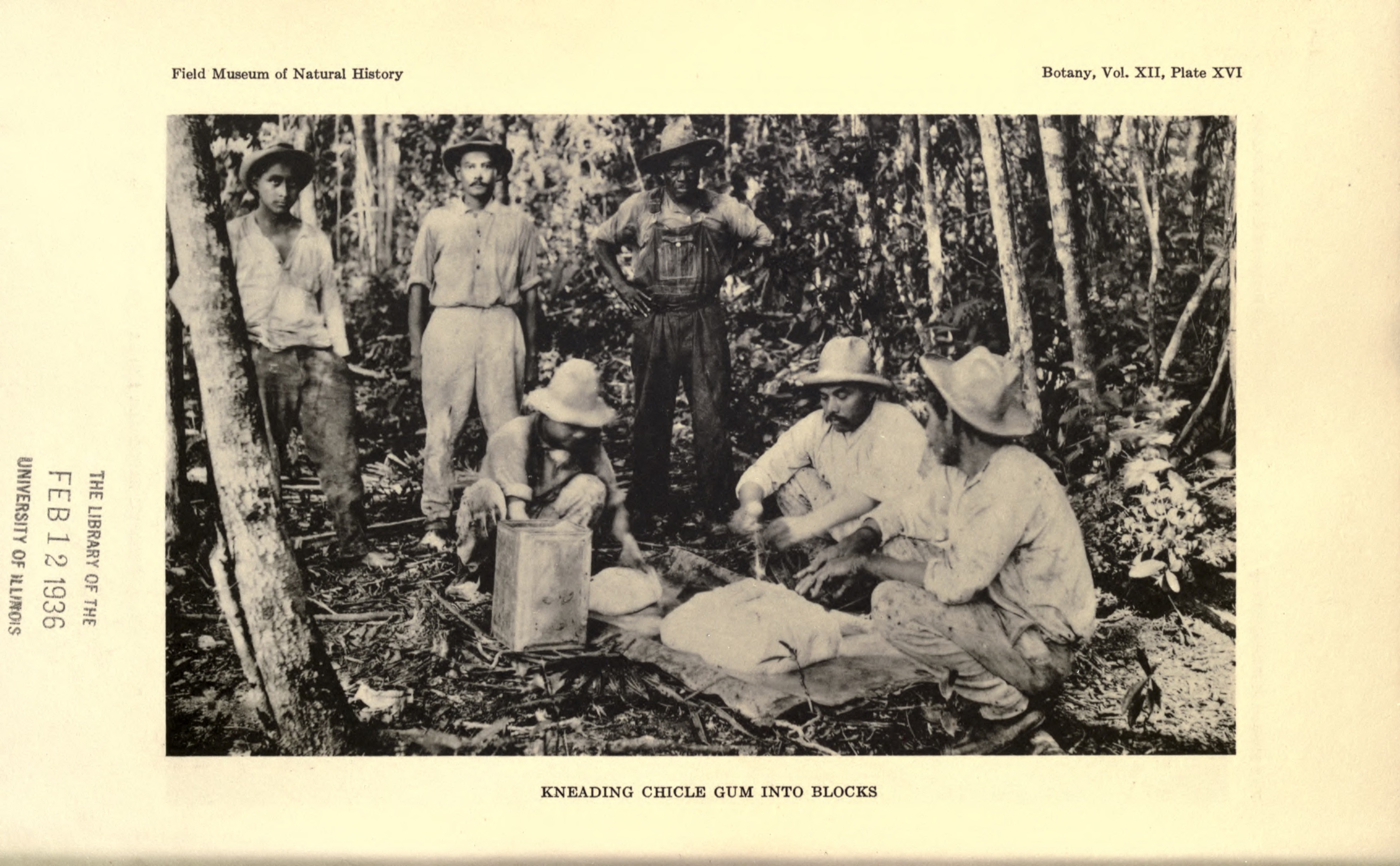 Kneading Chicle gum into blocks, Belize around 1936